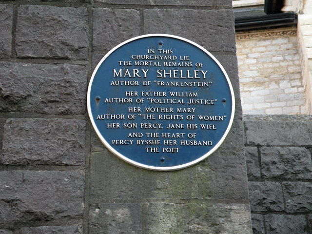 Blue plaque for Mary Shelley and her family On the wall of St Peter's churchyard